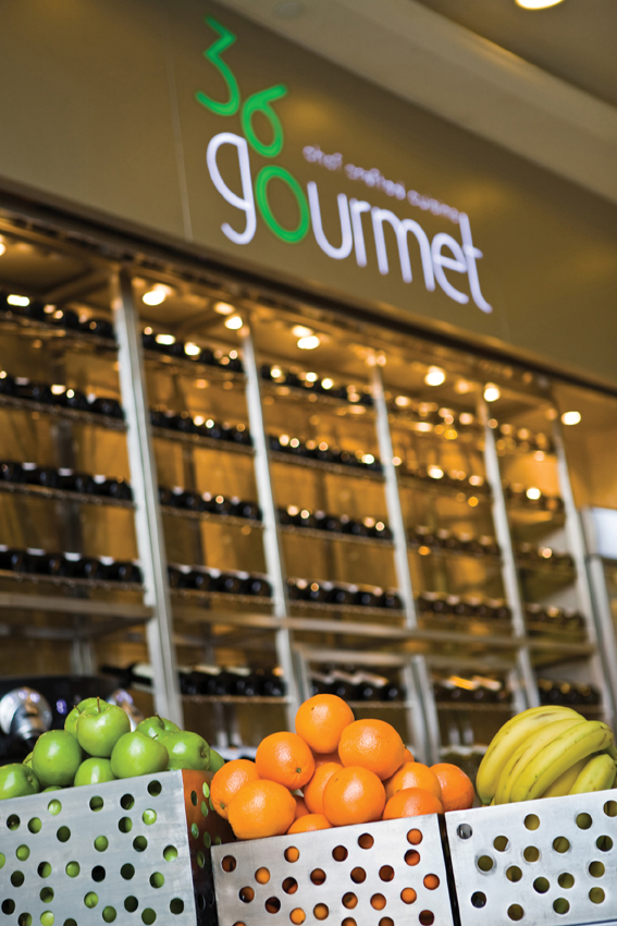 Groud Floor Gournet Shop